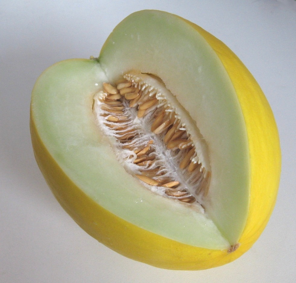 A yellow Honeydew melon. This one has a weight of 1436g and is 17.5cm long.